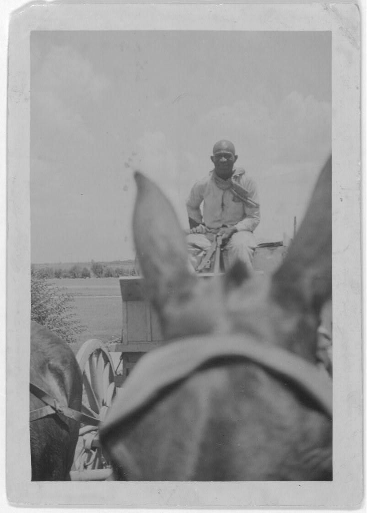 Moses Platt (Clear Rock) Sugar Land, Texas photographed by John Lomax c 1934